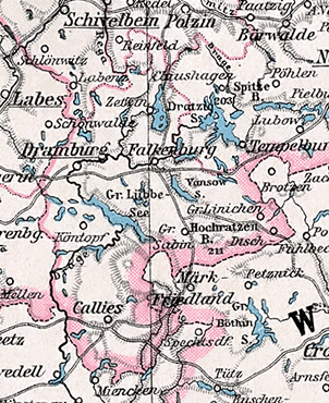 Detail from a map of Pomerania.